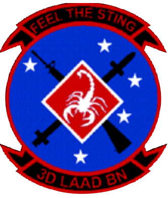 New 3rd LAAD Battalion logo